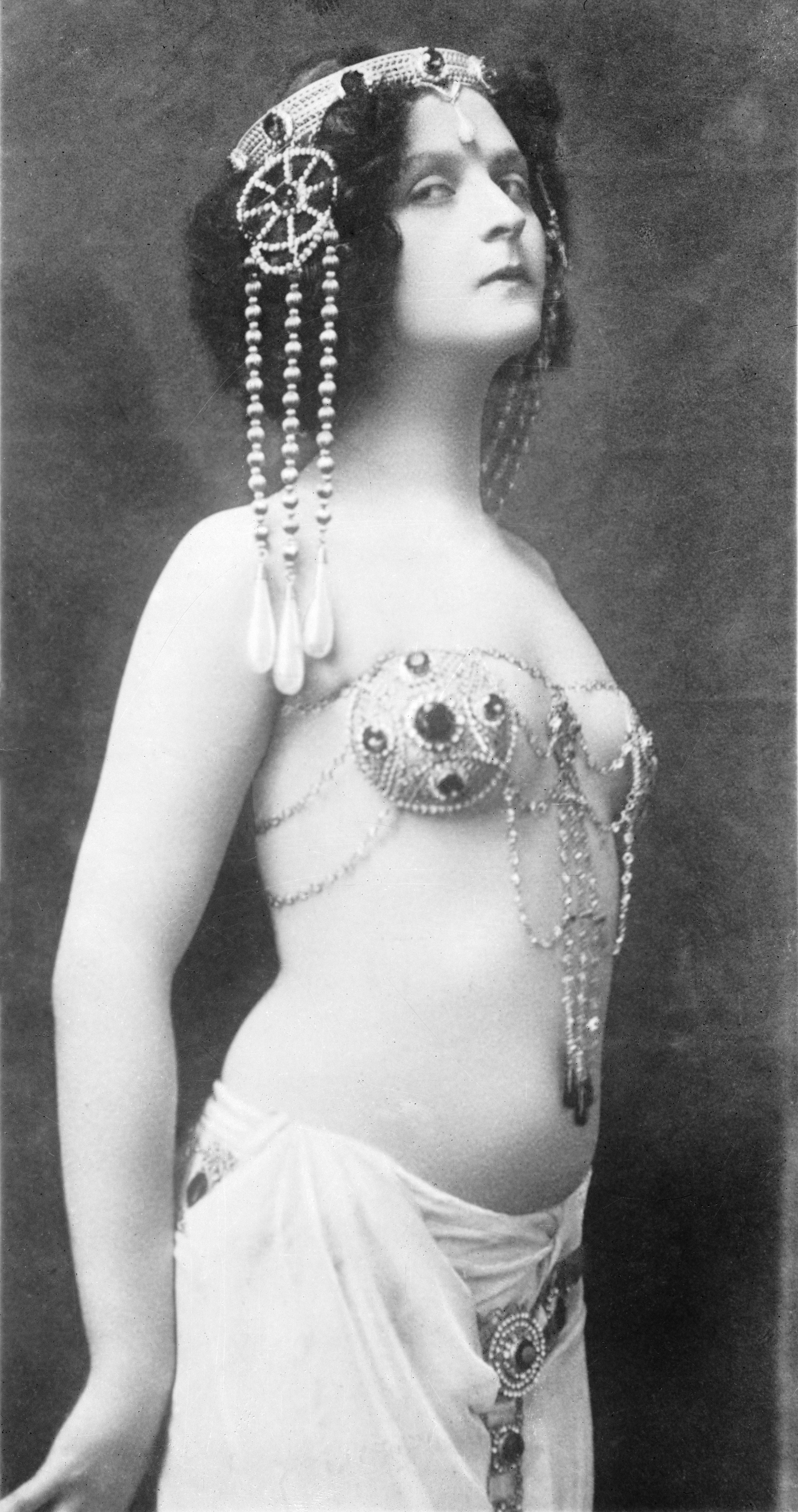 Belly dance performer Fritzi Schaffer as Salome, ca. 1910. Notes: Current title devised by Library staff based on information provided by the source: Flickr Commons Project, 2008. Title on negative: "Fritzi." Forms part of: George Grantham Bain Collection (Library of Congress).